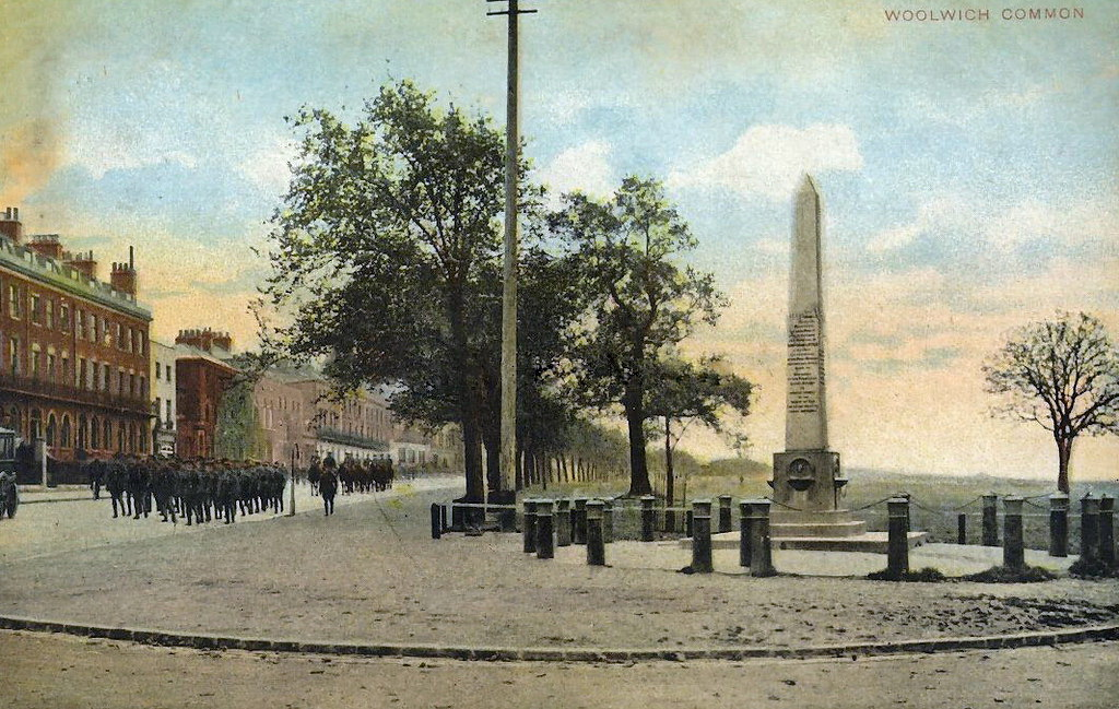 View of Woolwich Common and the drinking fountain marked by an obelisk commemorating Major Little, Woolwich, south east London, UK.